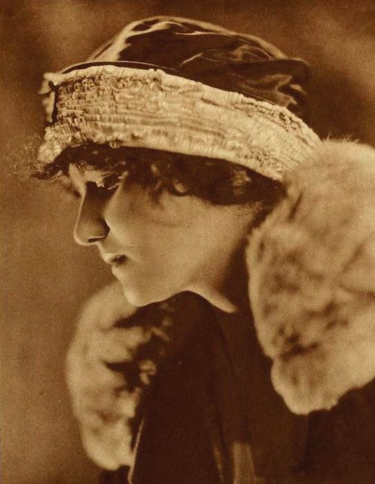 Actress Gypsy O'Brien, on page 13 of the May 1922 Photoplay.